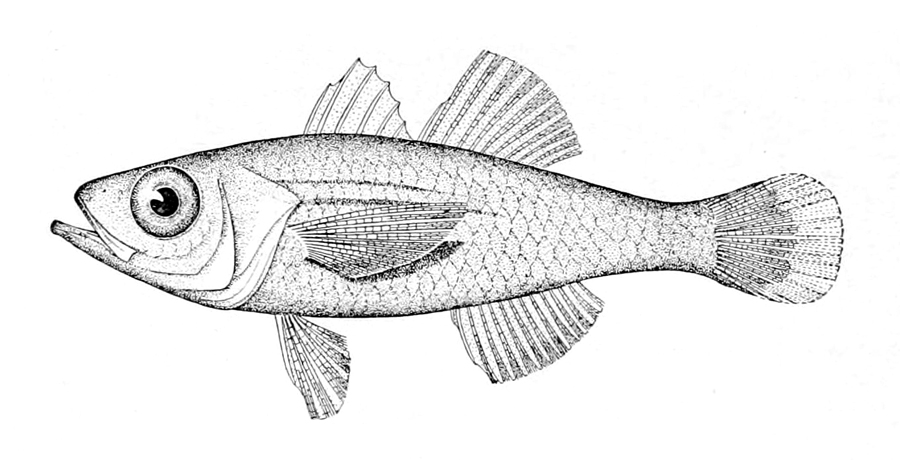 Rhabdamia mentalis